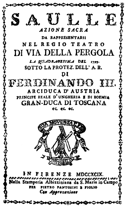 Gaetano Andreozzi - Saulle - titlepage of the libretto - florence 1799